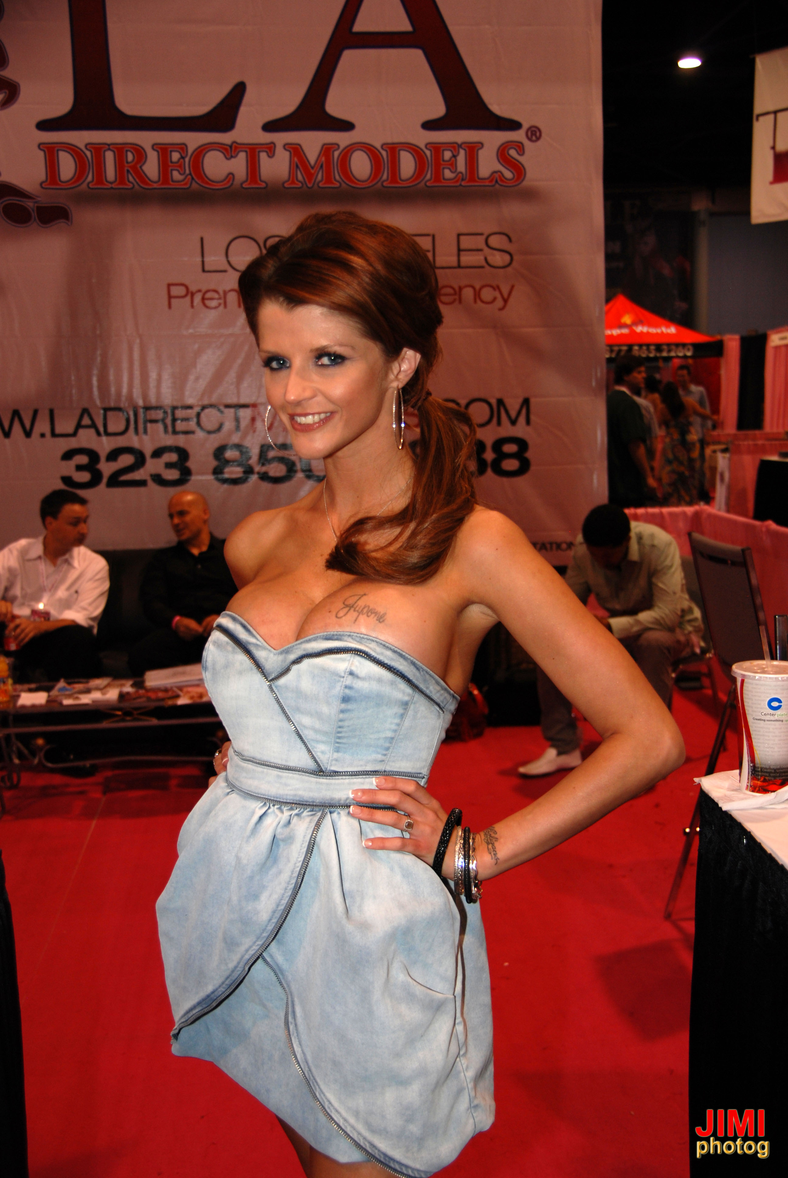 LA Direct Models - Joslyn James